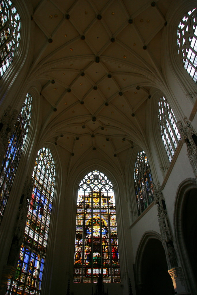 The high ceiling of the Saint Sacrament chapel of the St. Michael and Gudula cathedral in Brussels. Built between 1534 - 1539 in flamboyant Gothic style by Lodewijk van Bodeghem.